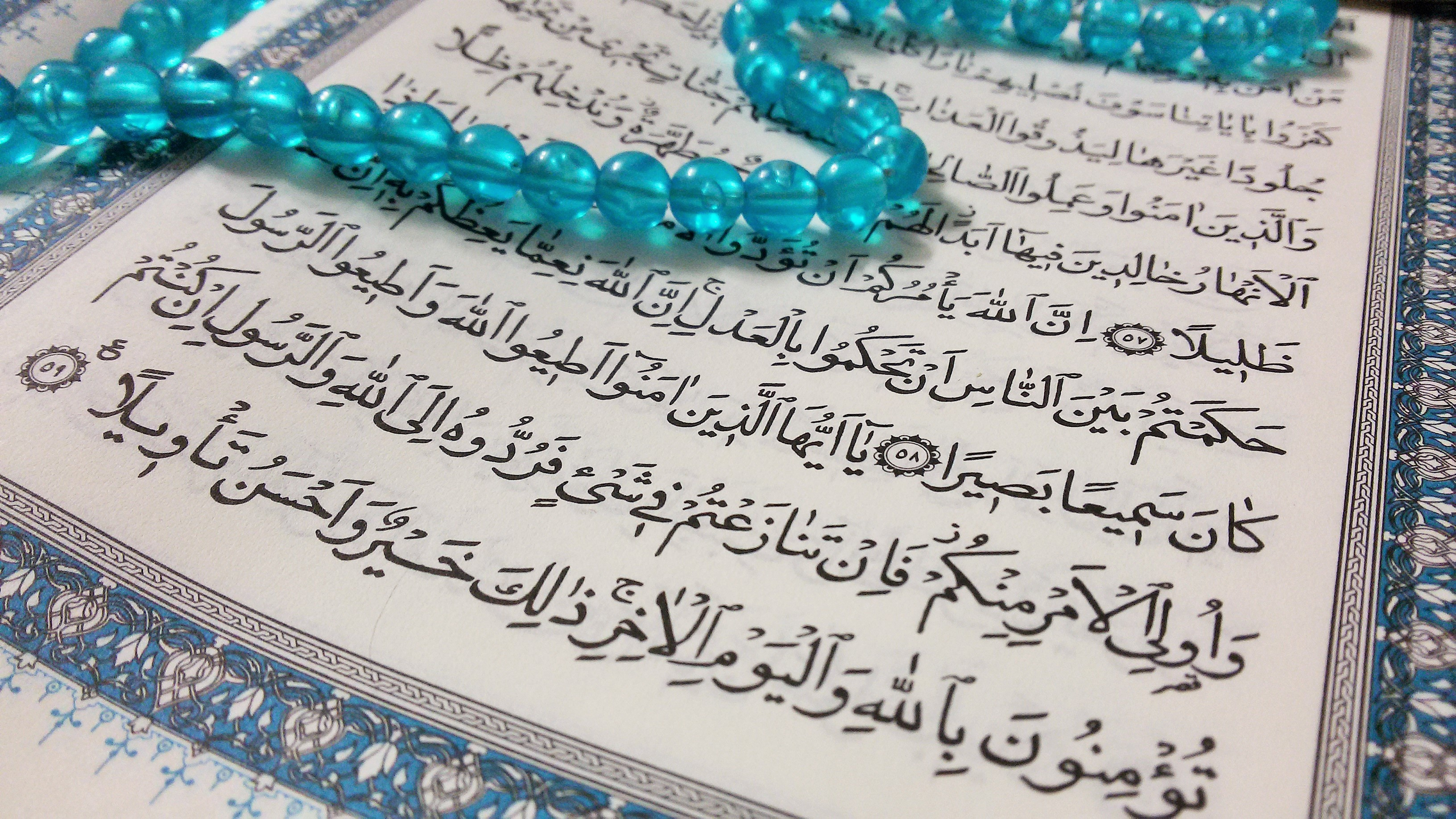 Quran